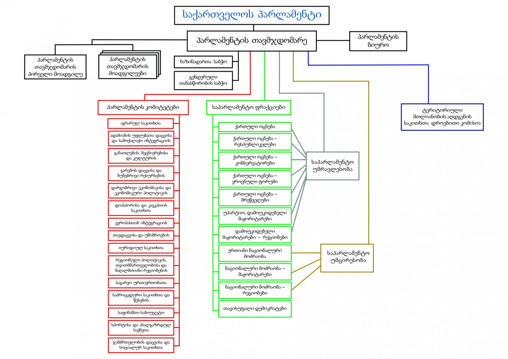 Structure of the Parliament of Georgia as of January 2015